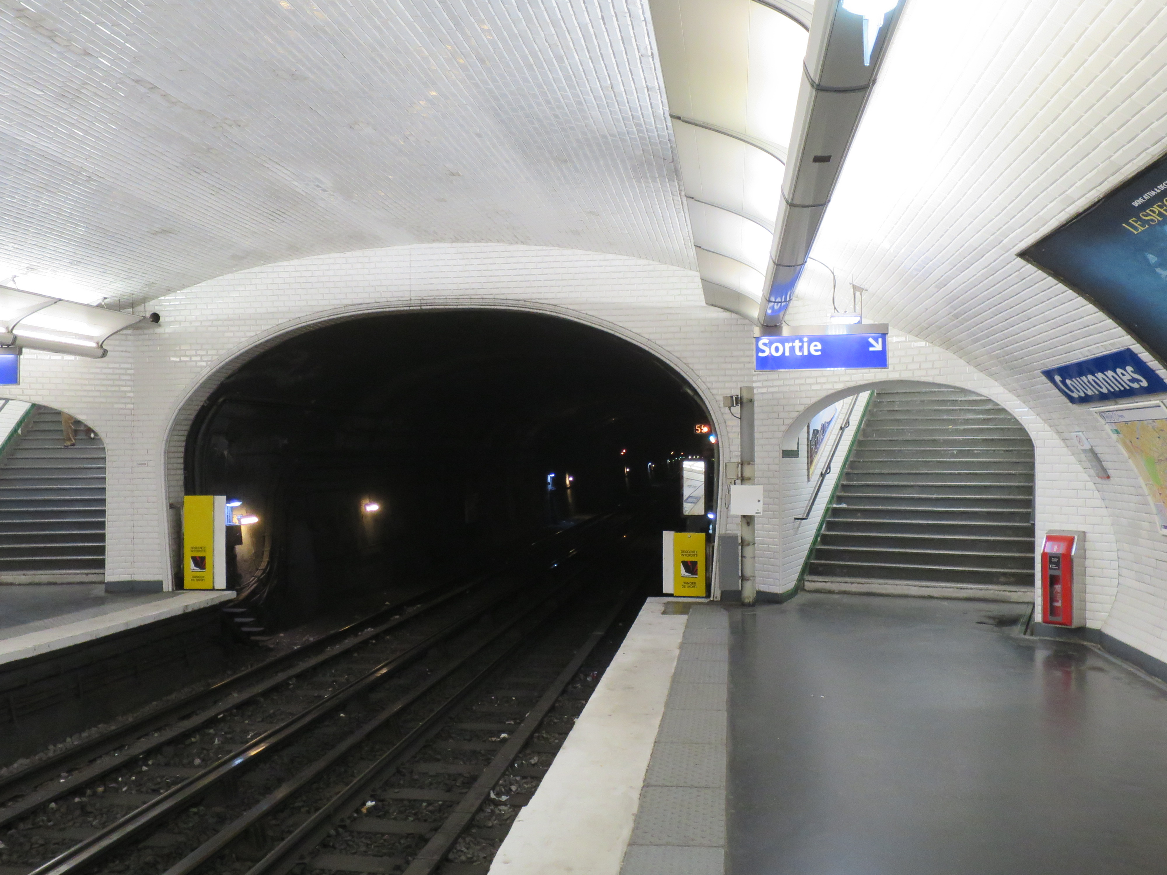 Metro Station Couronnes, Paris